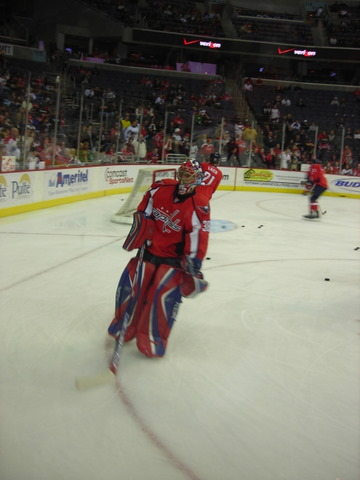 Cristobal Huet